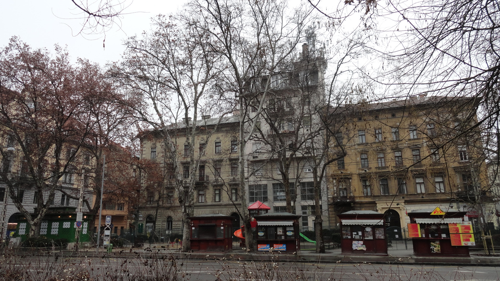 Lövölde square, Budapest.